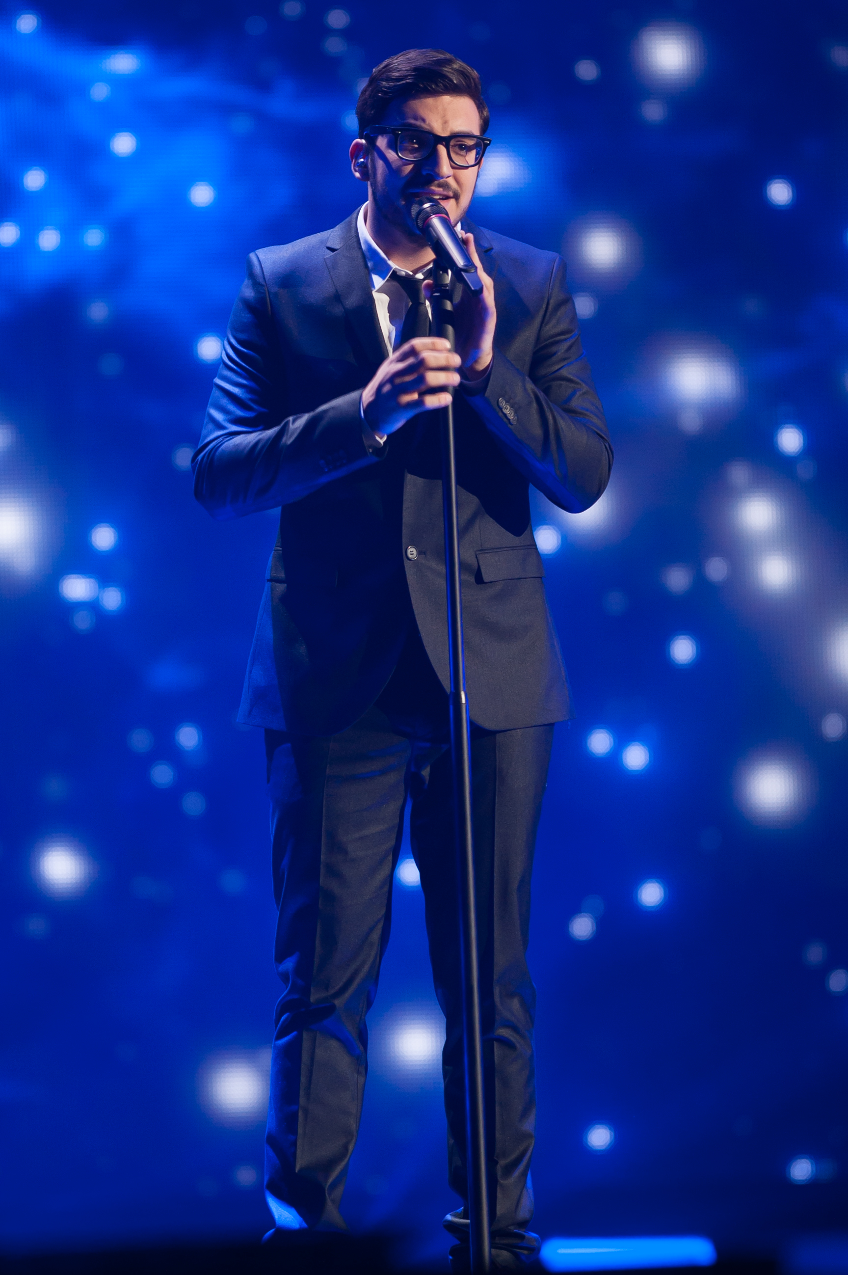 Eurovision Song Contest Vienna 2015: John Karayiannis